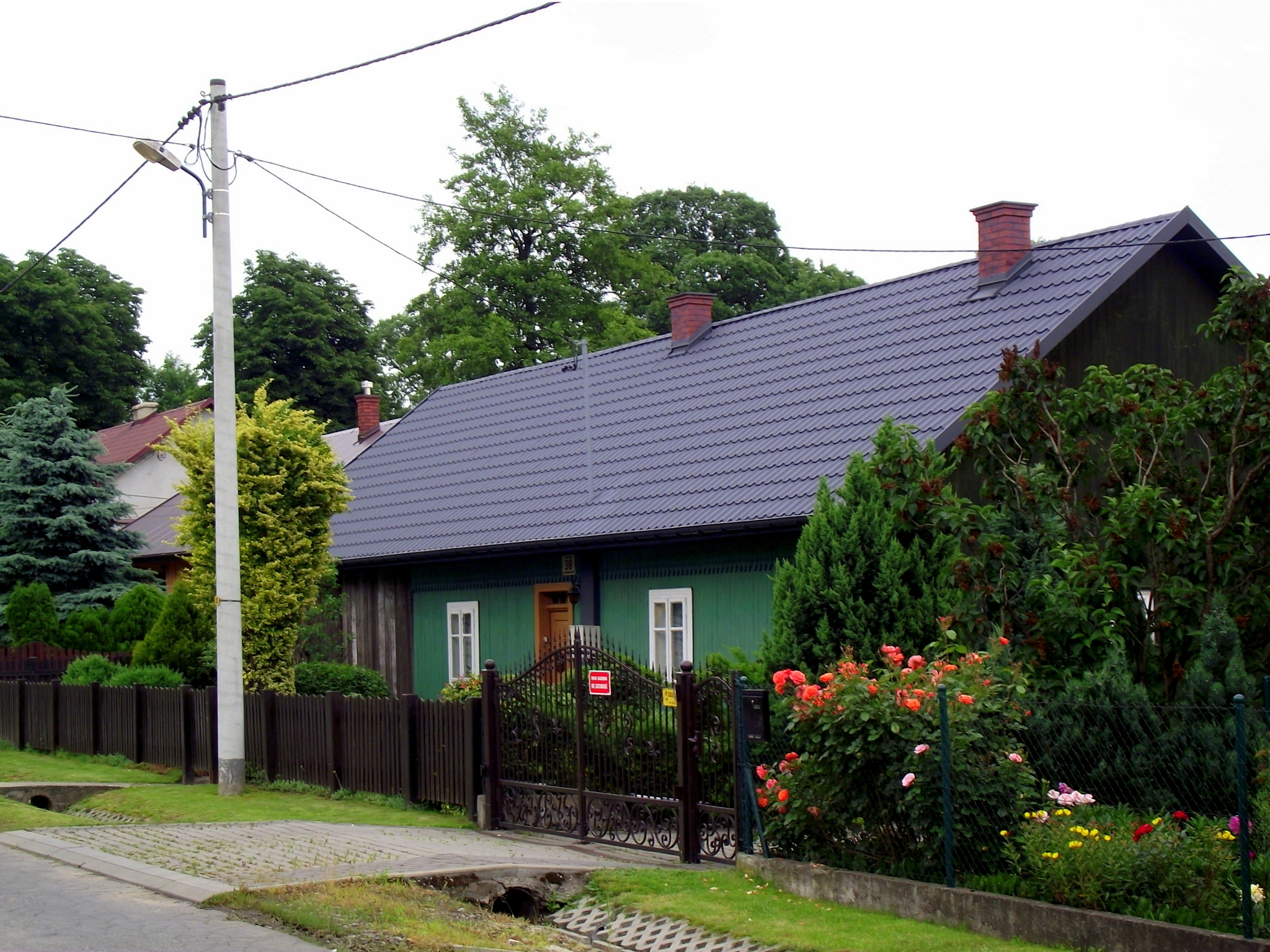 An old house in Pleszów, quarter of Cracow (38 Nadbrzezie Street).